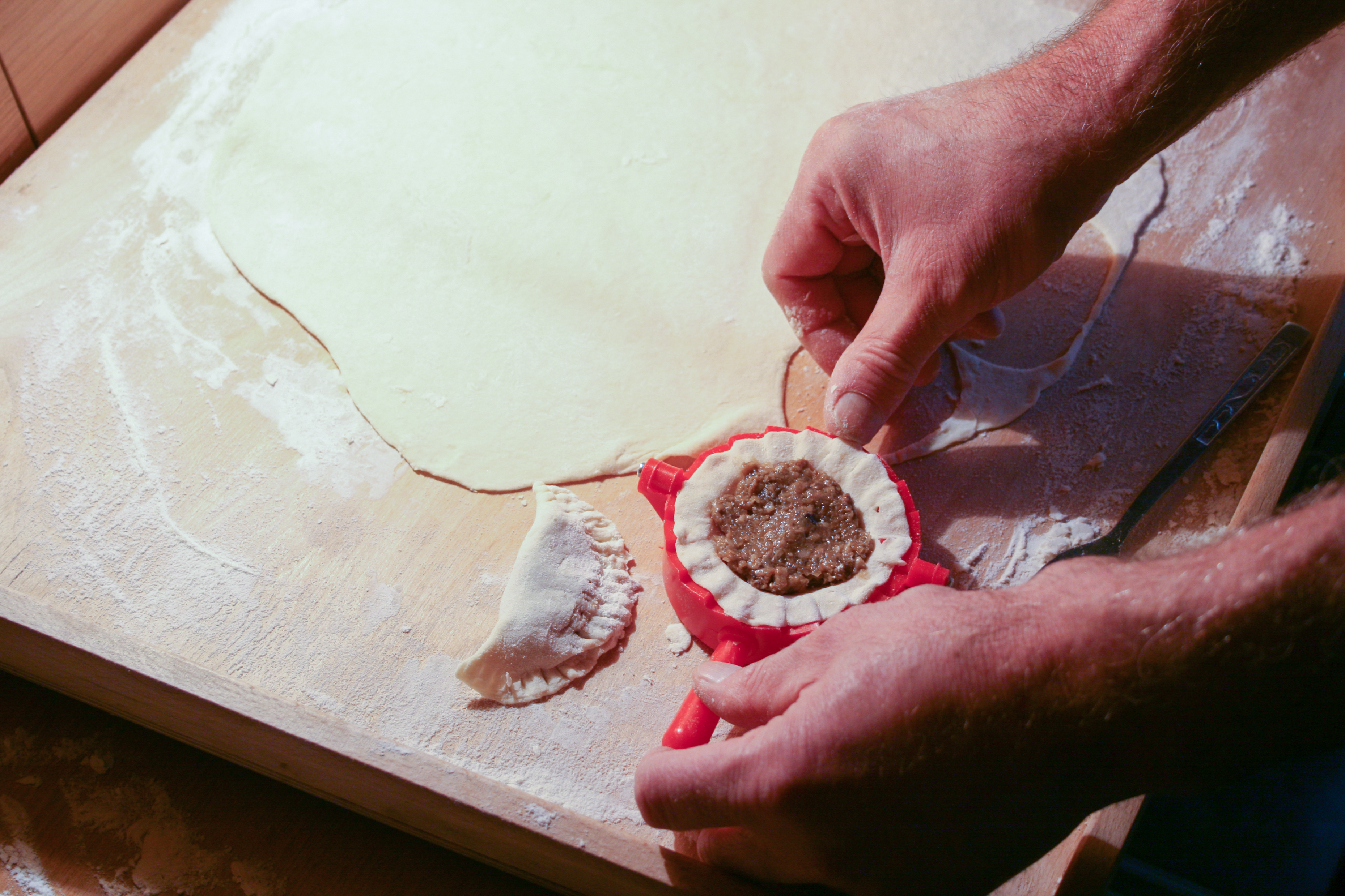 Pierogi, Gniezno, Poland